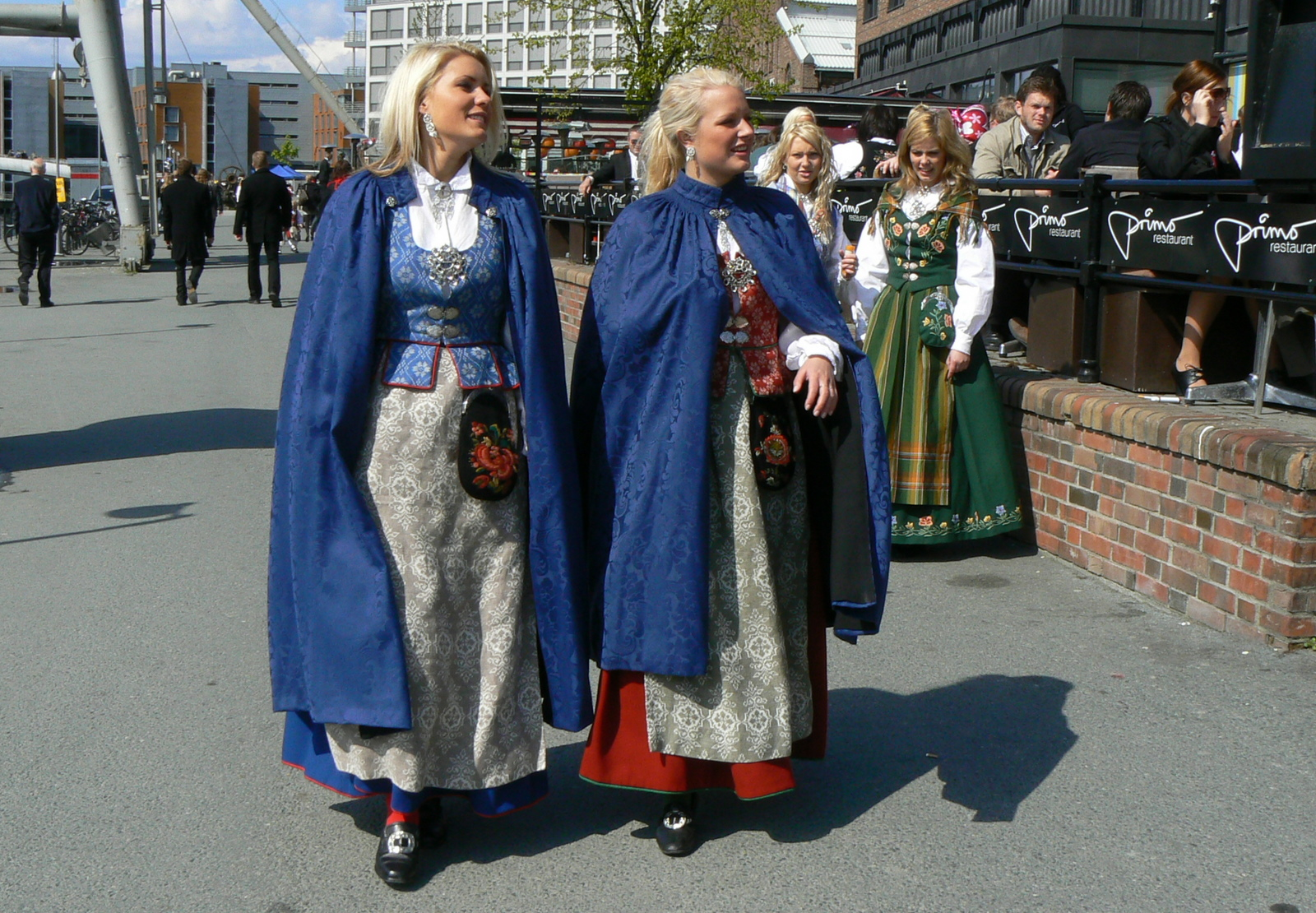 Two young women in national costumes from Trøndelag, photographed in Trondheim on the constitution day of Norway.